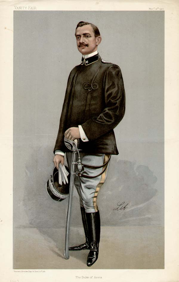 Caricature of HRH The Duke of Aosta KG.